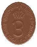 Memoral Sign of the Dutch Interior Forces 1944 - 1945